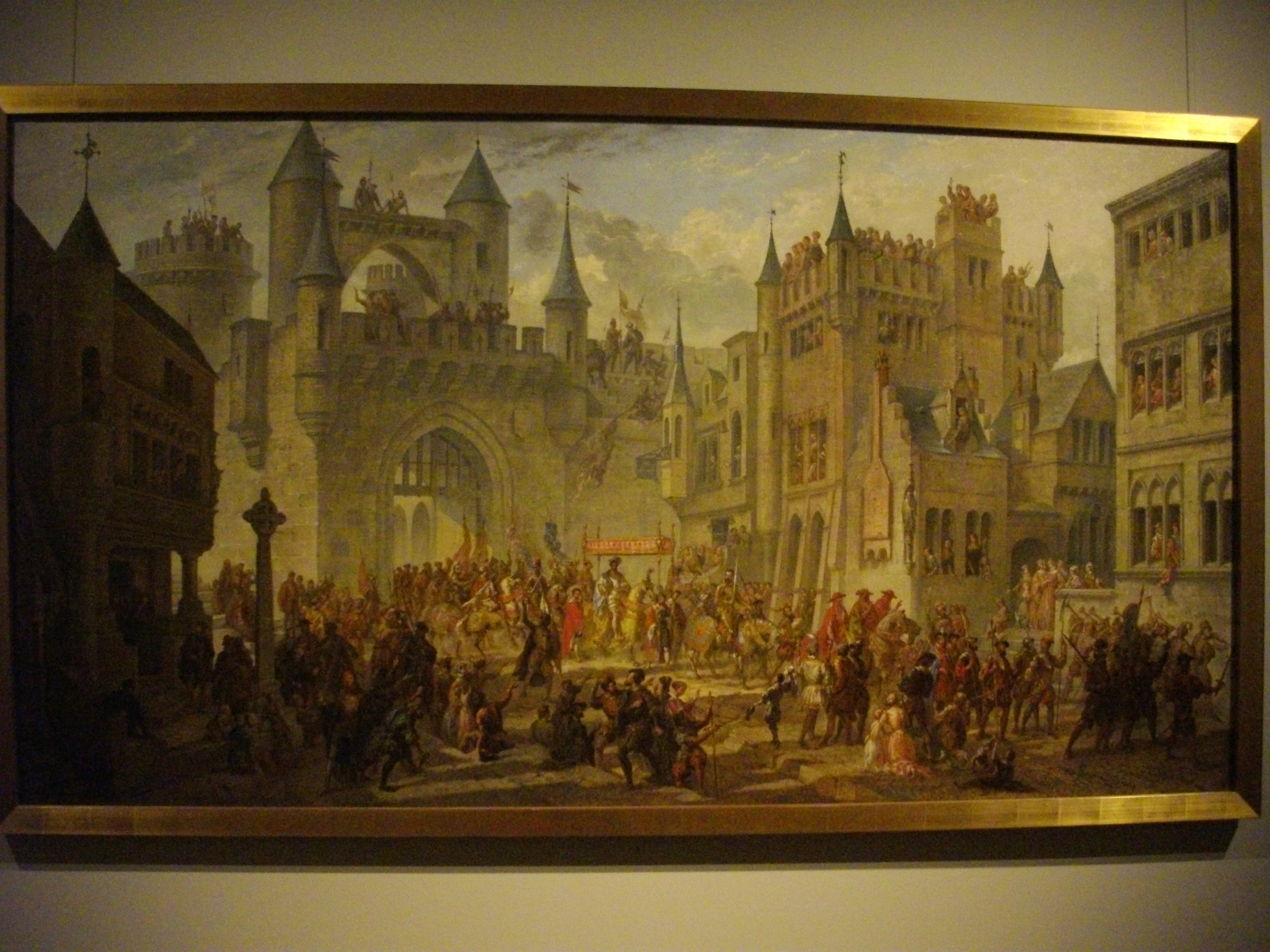 End of the Messin Republic Entry in Metz of Henri II, king of France, Auguste Migette, 1864, kept in Cour d'Or museums in Metz (Moselle, France).